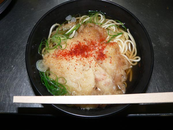 Ekisoba (soba sold at station stand) in Himeji station, taken by original uploader on October 17th, 2004.